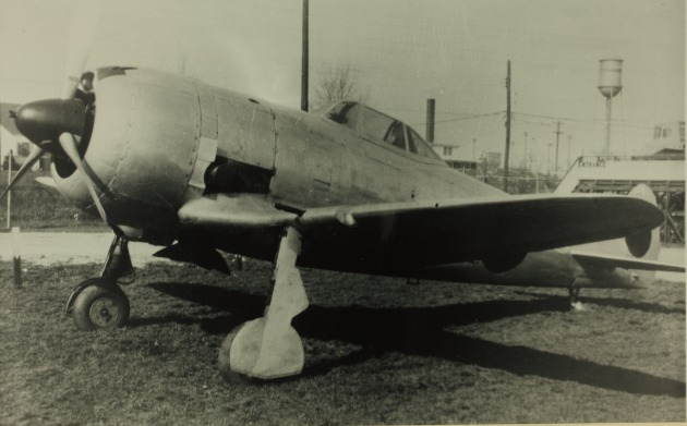 PictionID:6594953 - Catalog:01_00086195 - Title:Nakajima, Ki-44, Shoki 'Devil Queller' Tojo 'John' Army Type 2 Single seat Fighter' - Filename:01_00086195.TIF - Image from the Charles Daniels Photo Collection album "Seversky, Republic and P-47"----PLEASE TAG this image with any information you know about it, so that we can permanently store this data with the original image file in our Digital Asset Management System.----SOURCE INSTITUTION: San Diego Air and Space Museum Archive